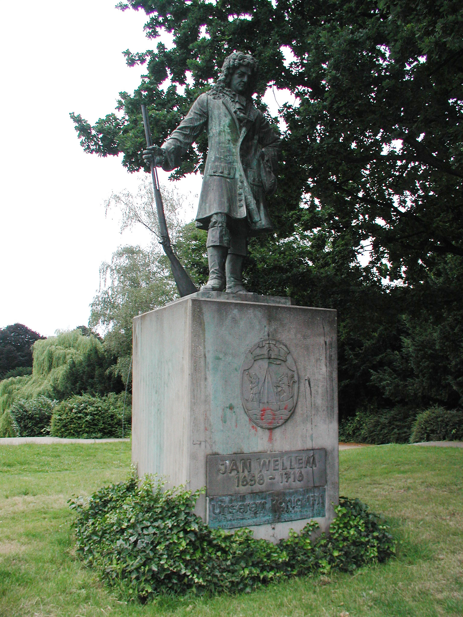 Cologne, monument "Jan-Wellem"